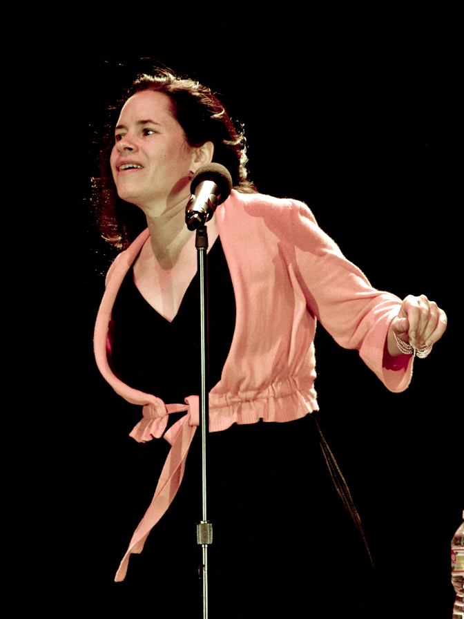 Natalie Merchant in concert at Maryhill Winery, in Southeastern Washington State, on August 7, 2010.